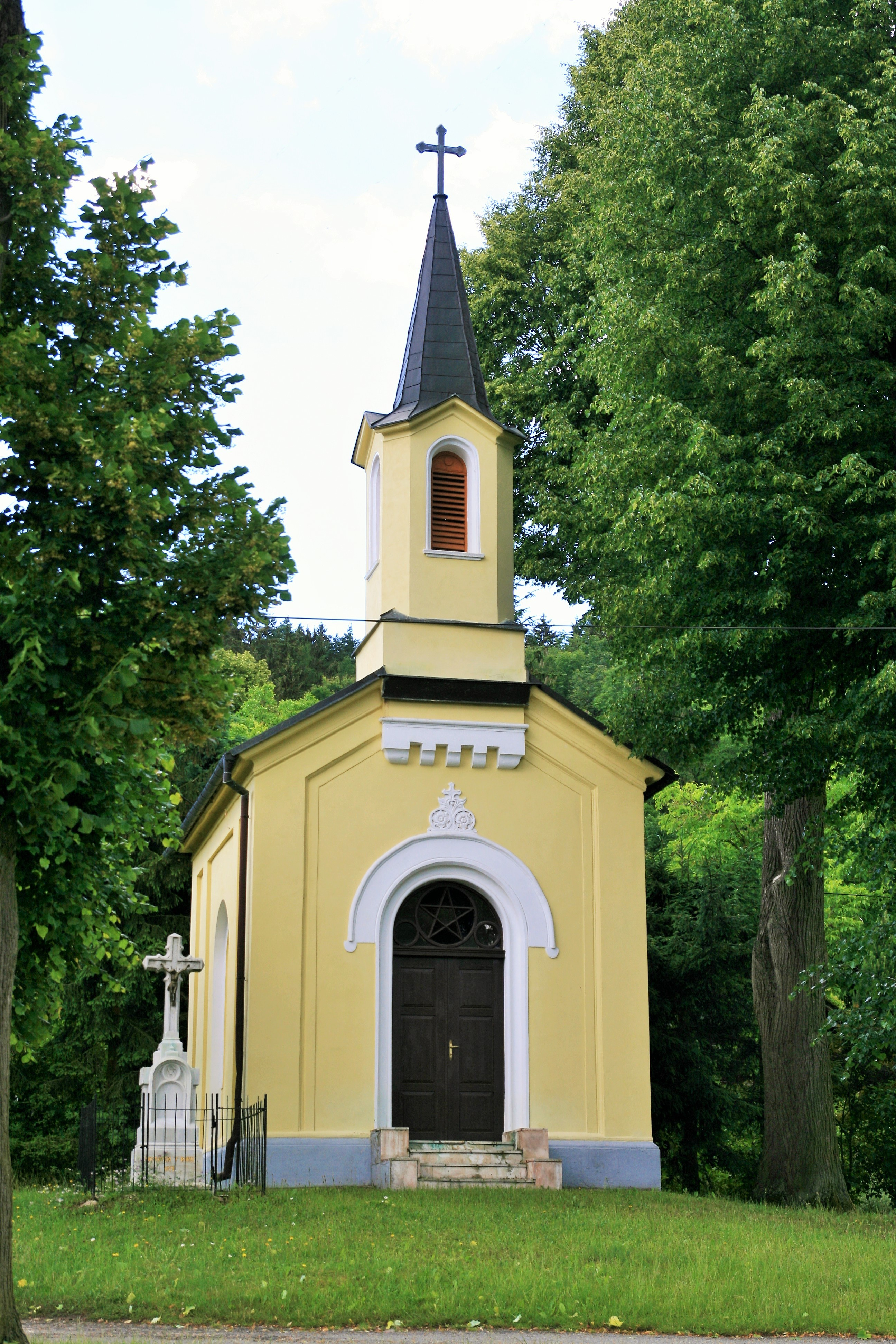 Žerůtky, Blansko District, Czech Republic. Our Lady of the Snow chapel at the village green.